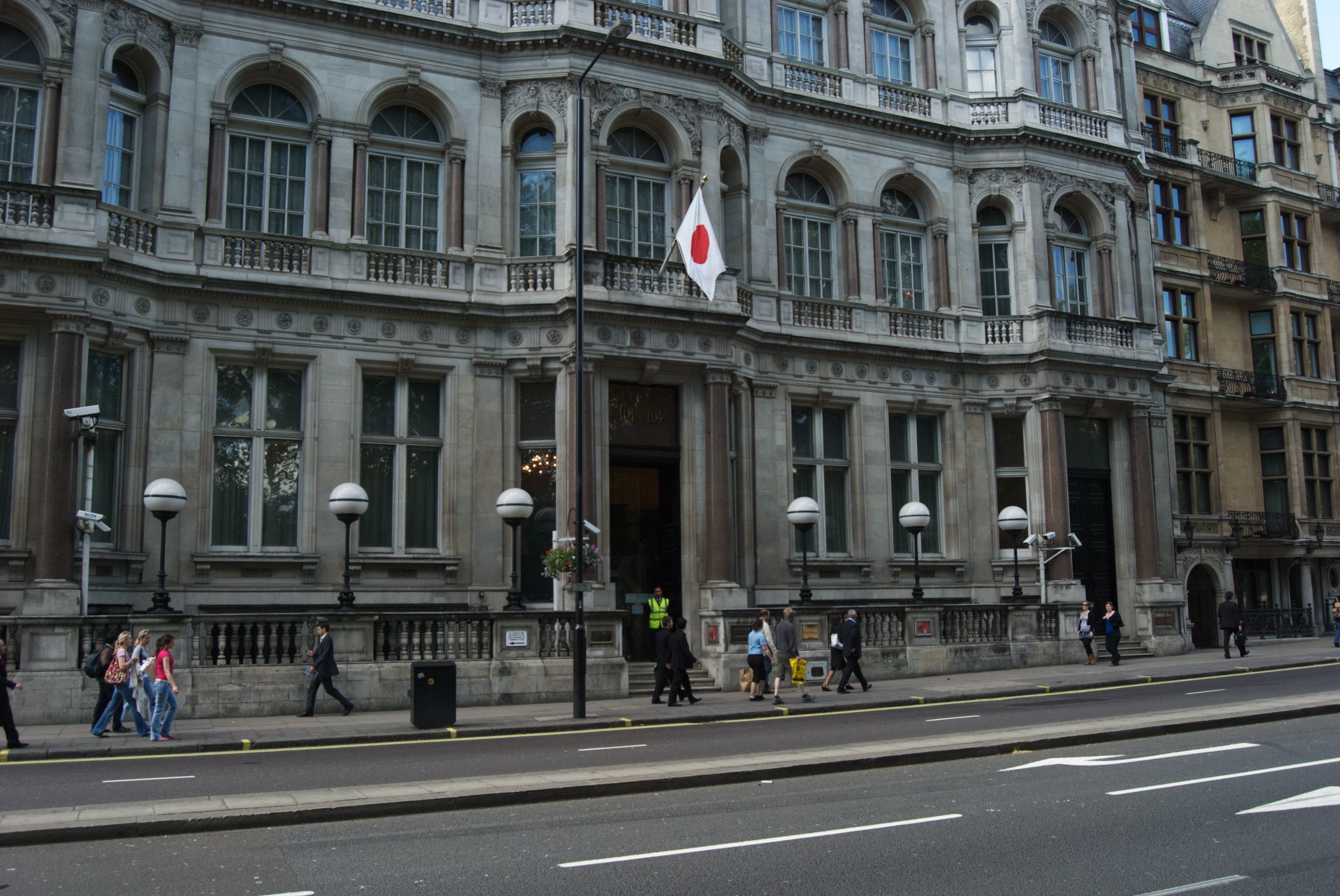 The Japanese embassy on Piccadilly in London